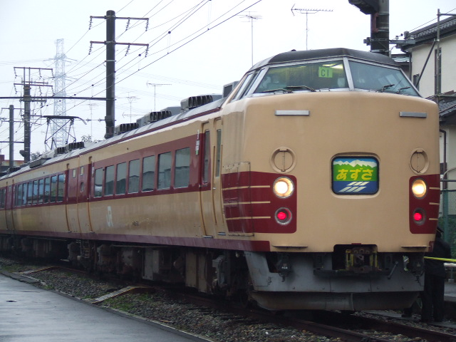 LTD Exp.〝Azusa〟of Series 183,East Japan Railway,Japan